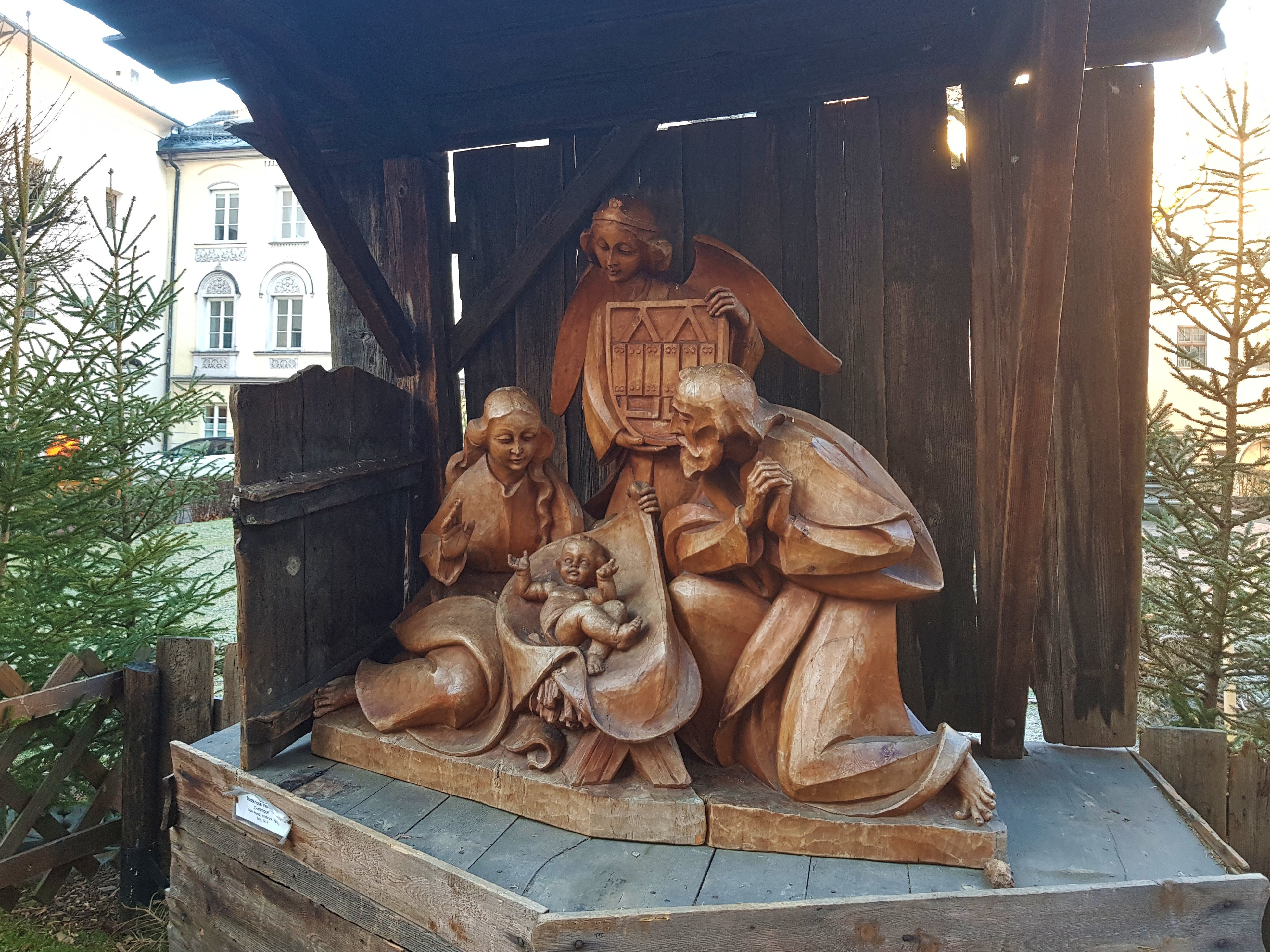 Innsbrucker Stadtkrippe aka. Domkrippe